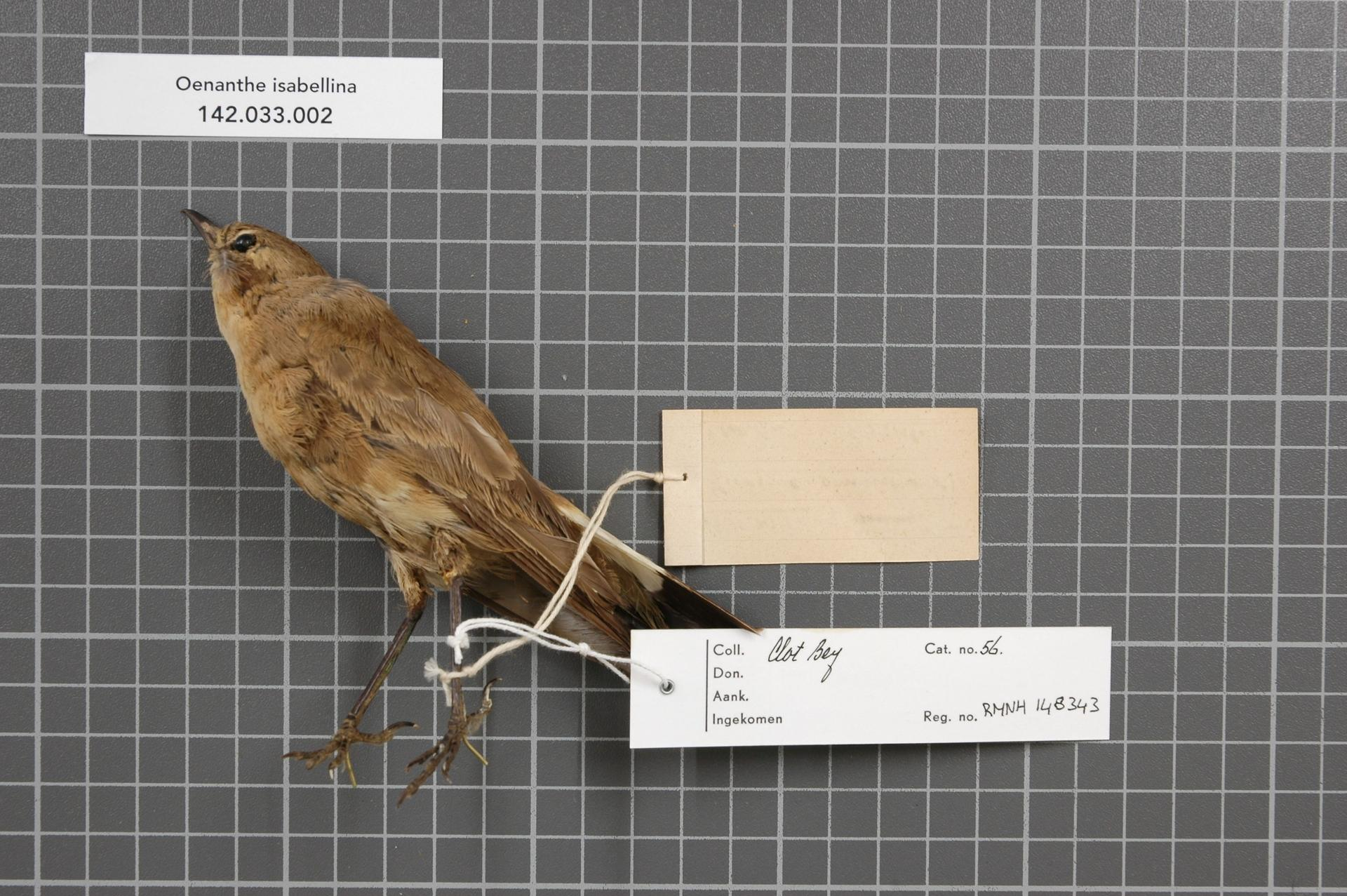 Oenanthe isabellina (Temminck, 1829)